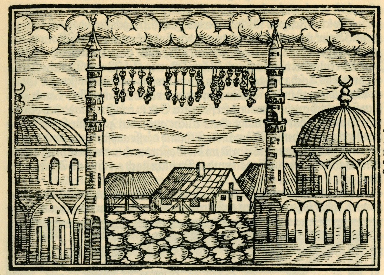 Salomon Schweigger. Ein newe Reiss Beschreibung auss Teutschland nach Constantinopel und Jerusalem, Nuremberg / Graz, Johann Lantzenberger / Akademische Druck 1608